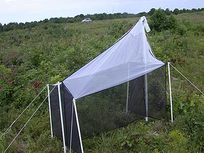 A picture of a Malaise trap, a type of trap used to capture insects for scientific study. Photo by Ceuthophilus.